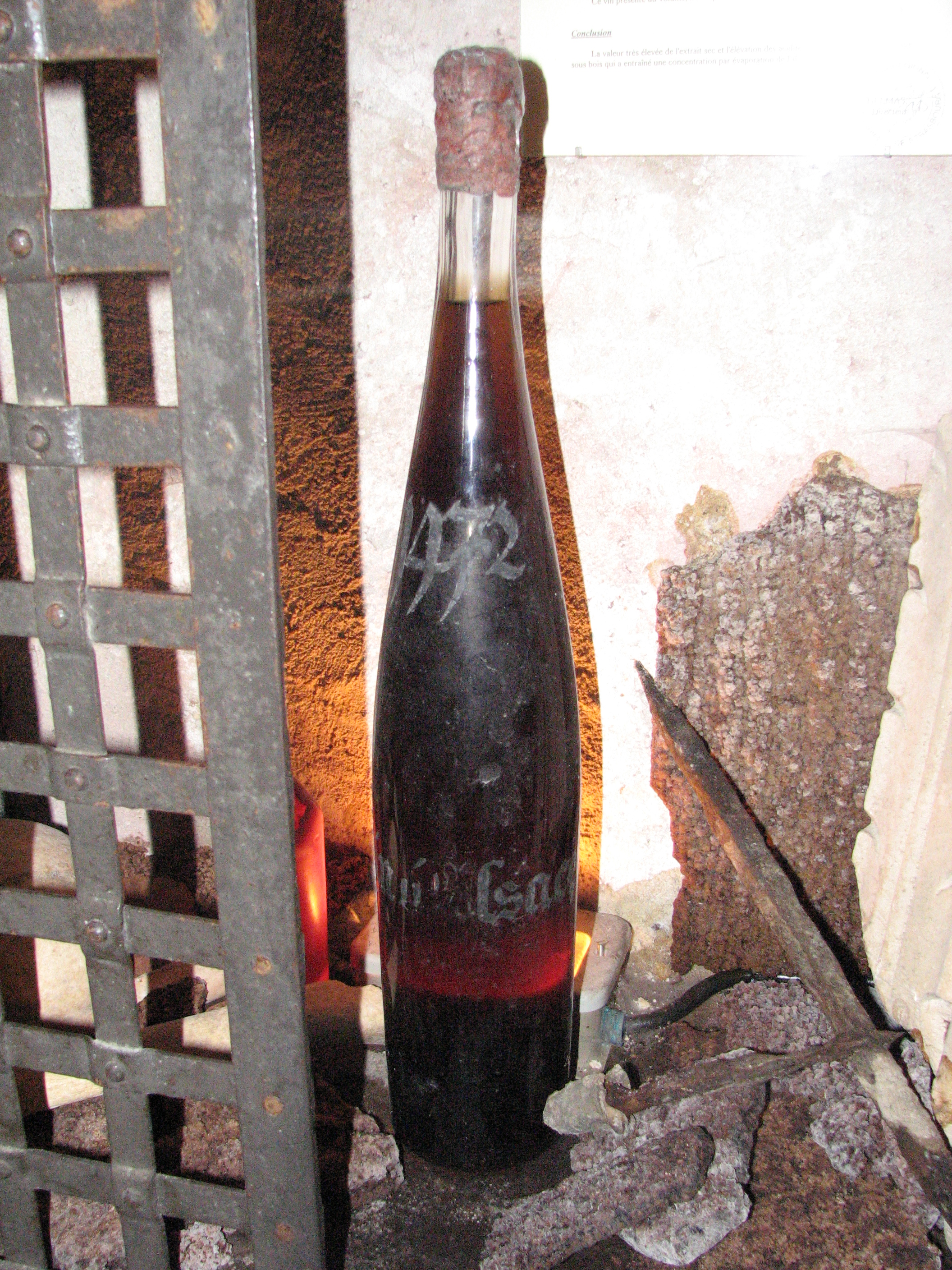 This bottle, on display in the historical cellar of Strasbourg, France, is supposedly filled with the oldest wine in the world, a white Alsace wine that would date back to the year 1472.